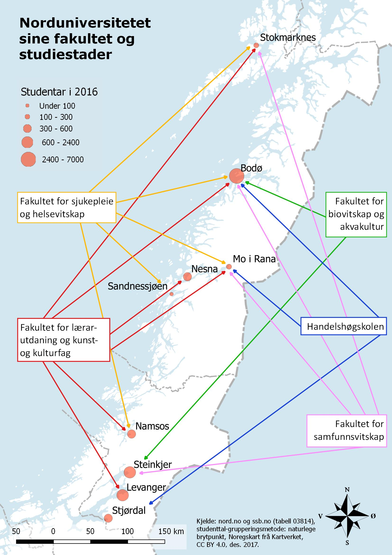 Faculties and campuses of the Nord University in Norway.